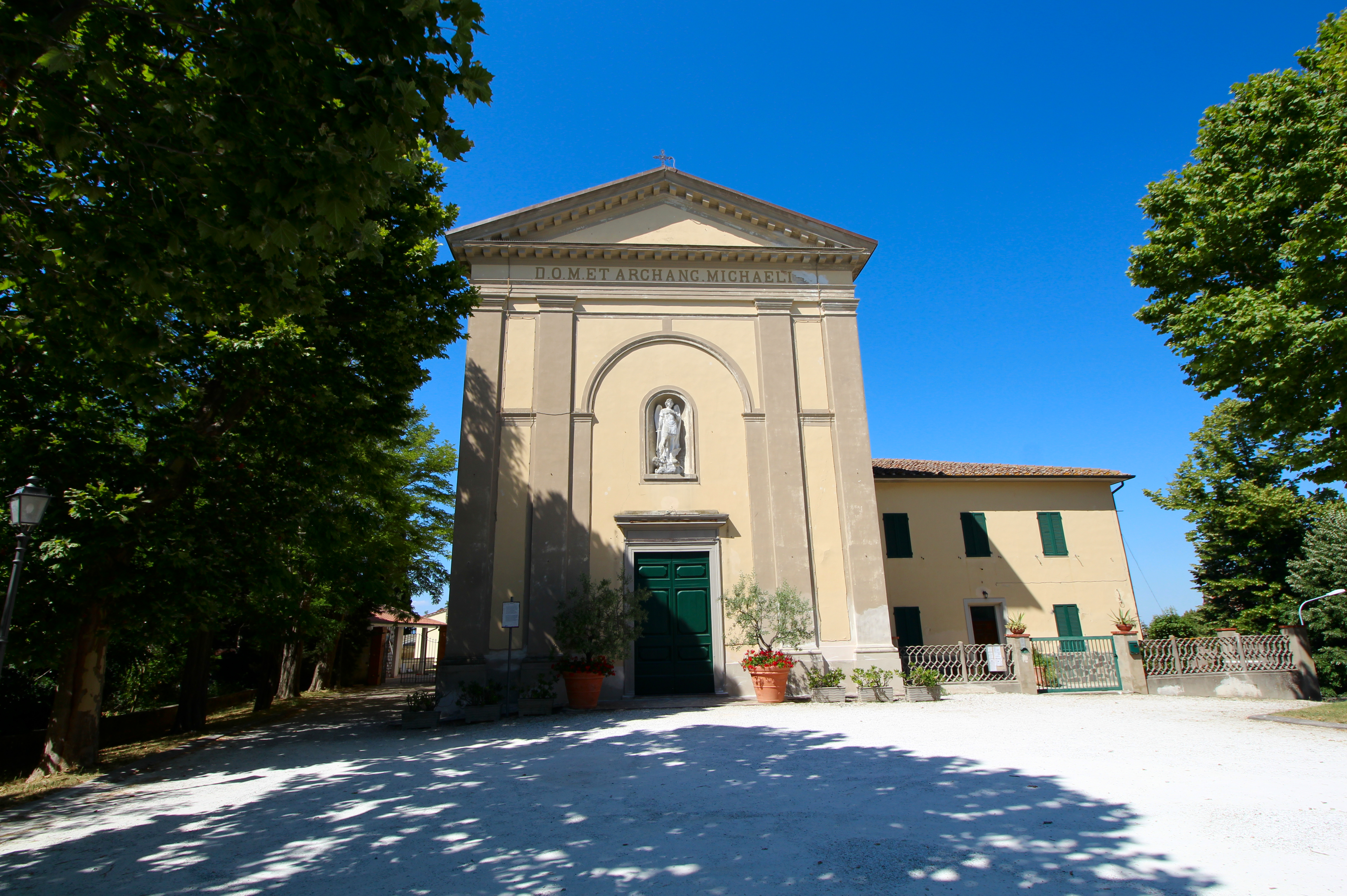 Church San Michele, Crespina, hamlet of Crespina Lorenzana, Province of Pisa, Tuscany, Italy